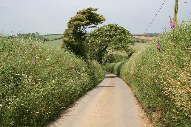 High Banks Flanking a Country Lane. As usual along Cornish country lanes, the banks ensure there is no view of the adjacent fields until you come to a field gate.